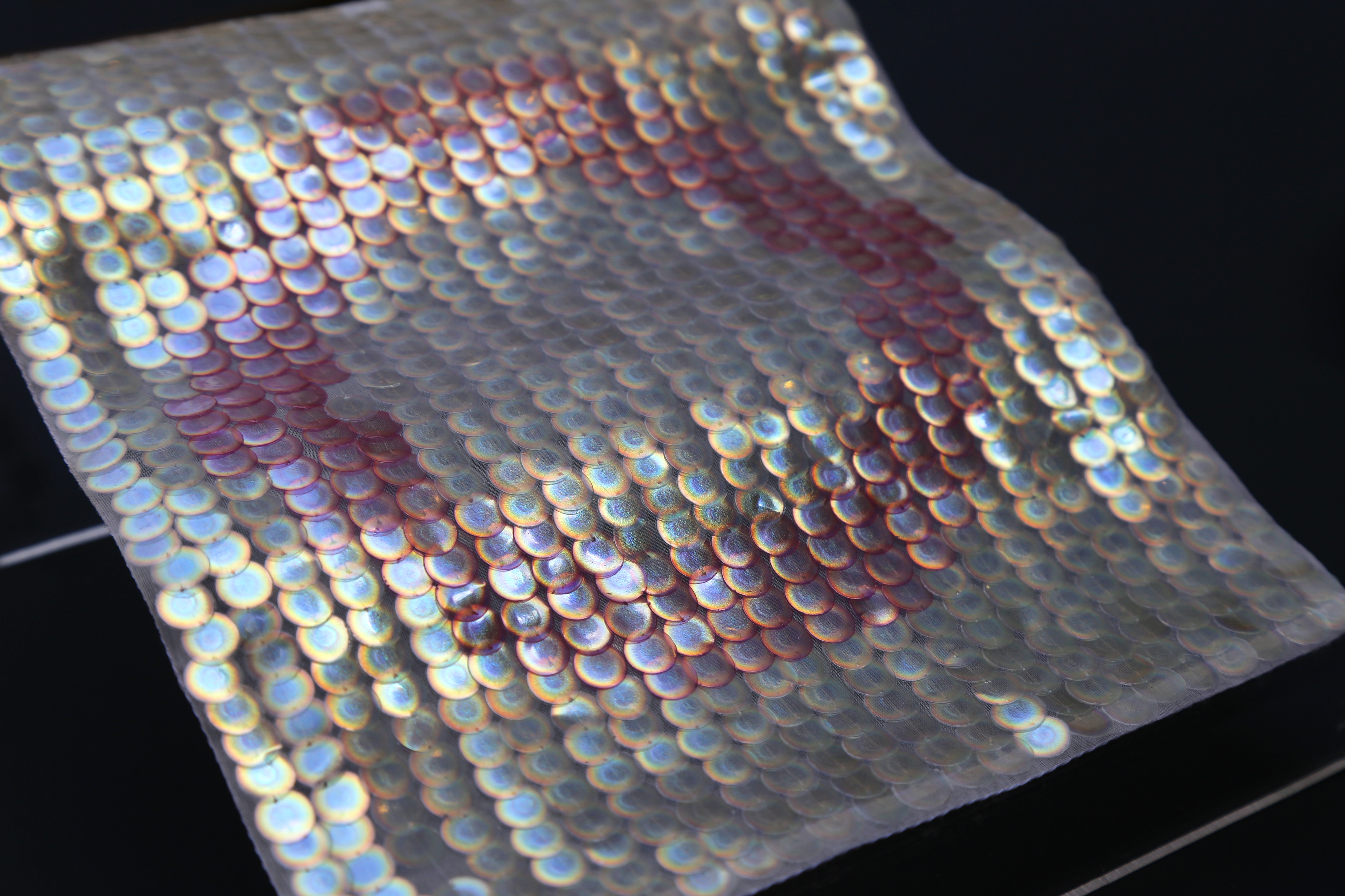 Cellulose nanocrystals self-organized into sequins. Image credit Elissa Brunato.